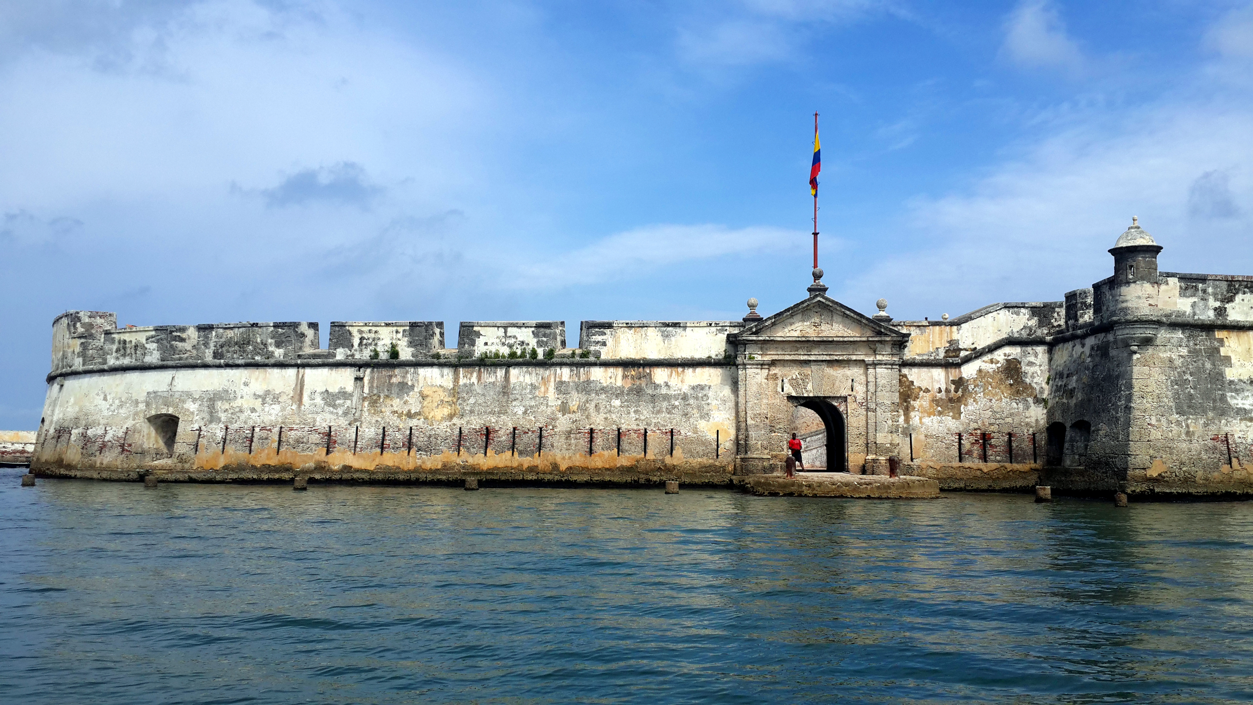 Fort San Fernando, Tierra Bomba Island, Bolívar Department, Colombia